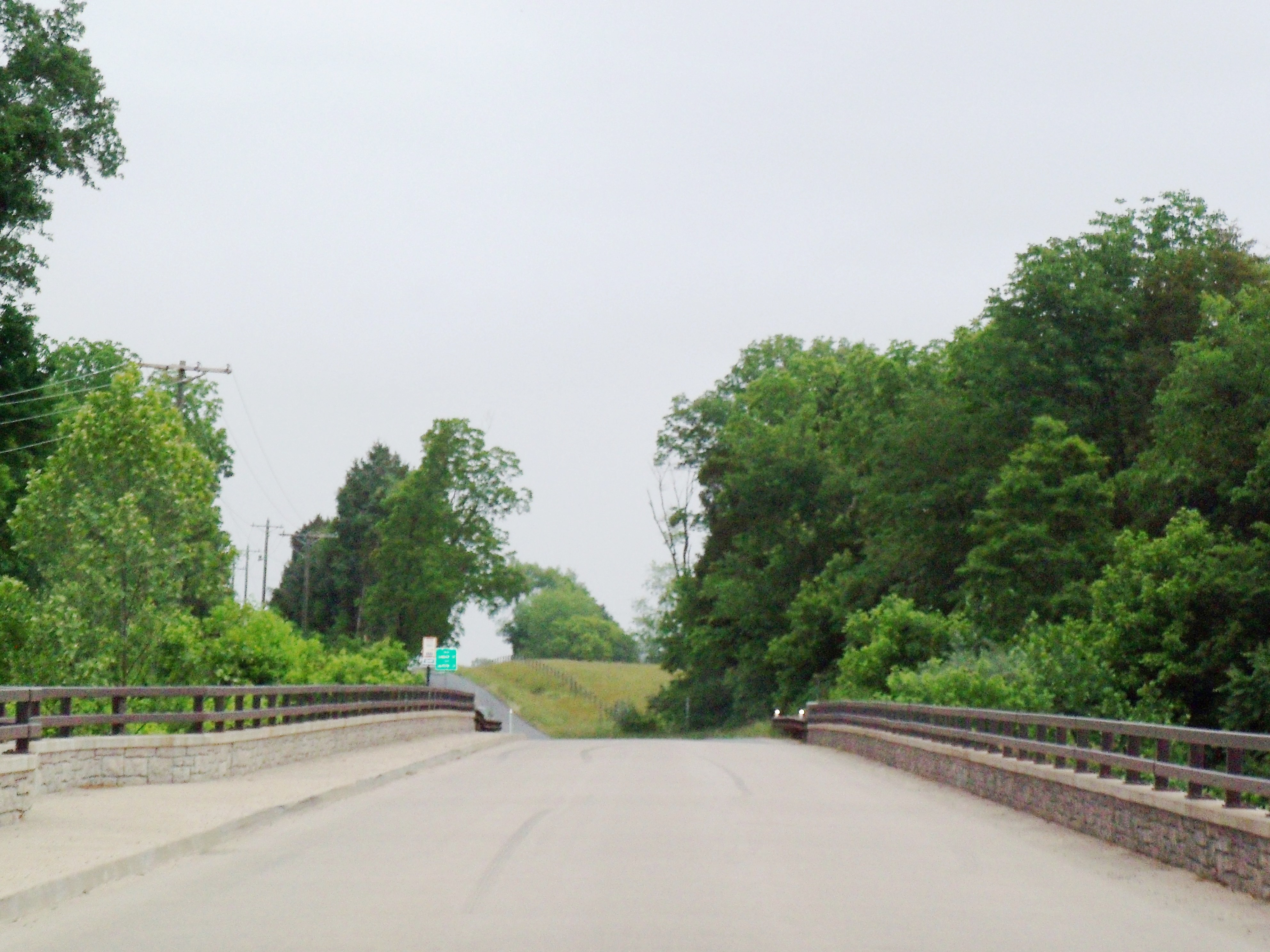 Kelly's Ford Bridge across the Rappahannock